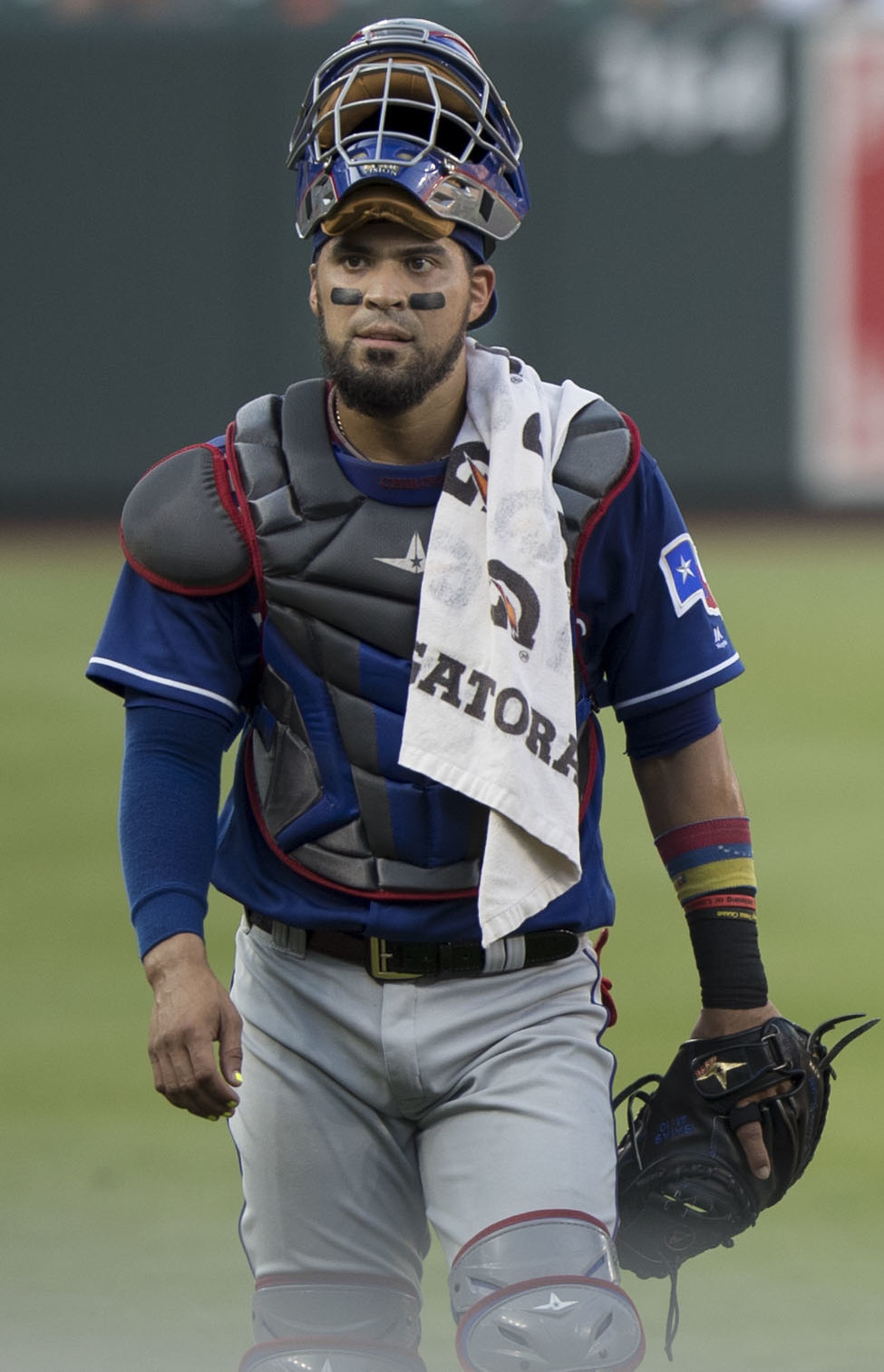 Rangers at Orioles 7/19/17